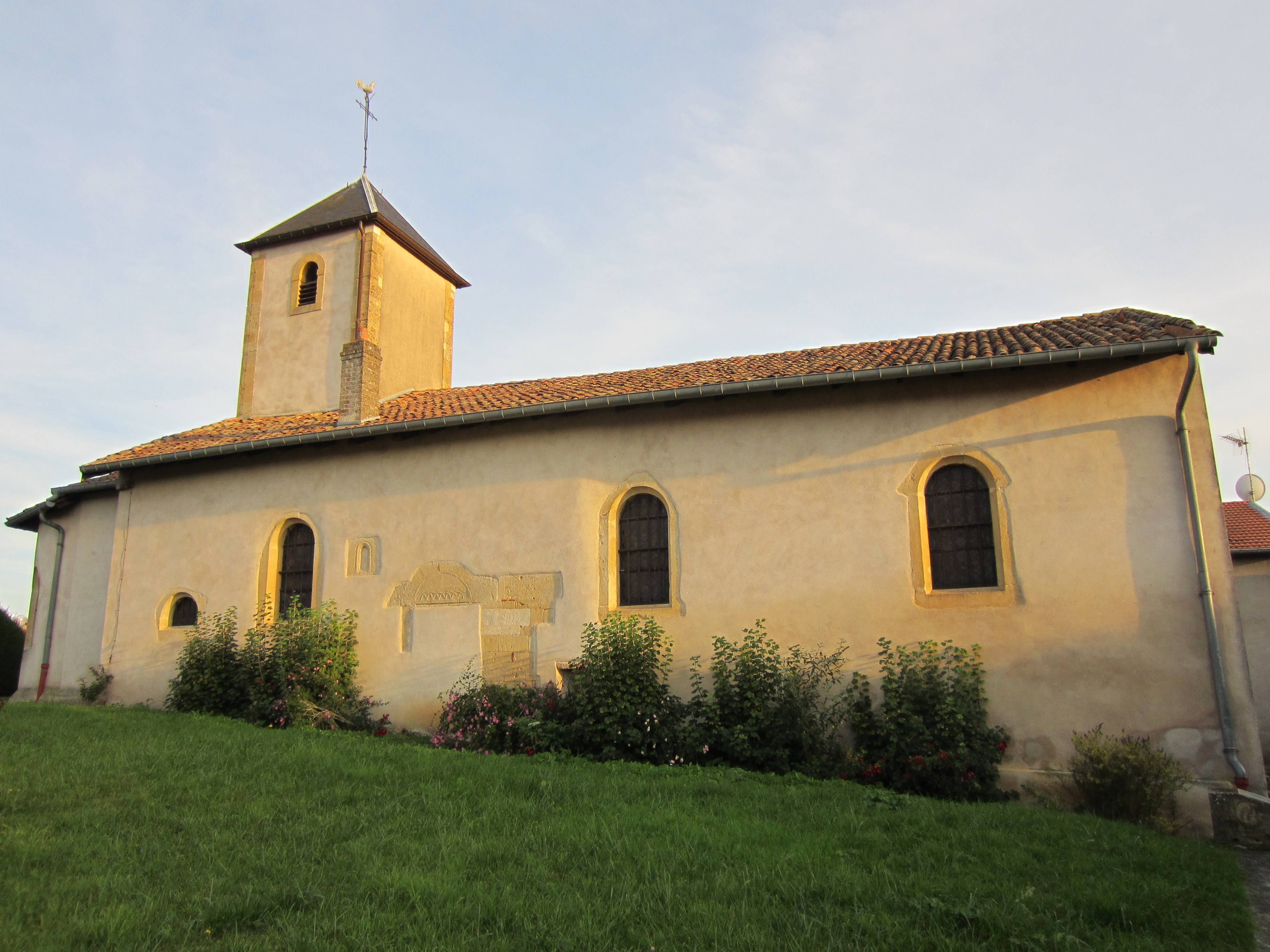 Description eglise Ville Yron Date25 September 2011Sourcemon appareil photoAuthorAimelaimePermission (Reusing this file) eglise Ville Yron